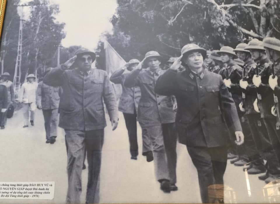 Military parade - Major General Dao Huy Vu and General Vo Nguyen Giap